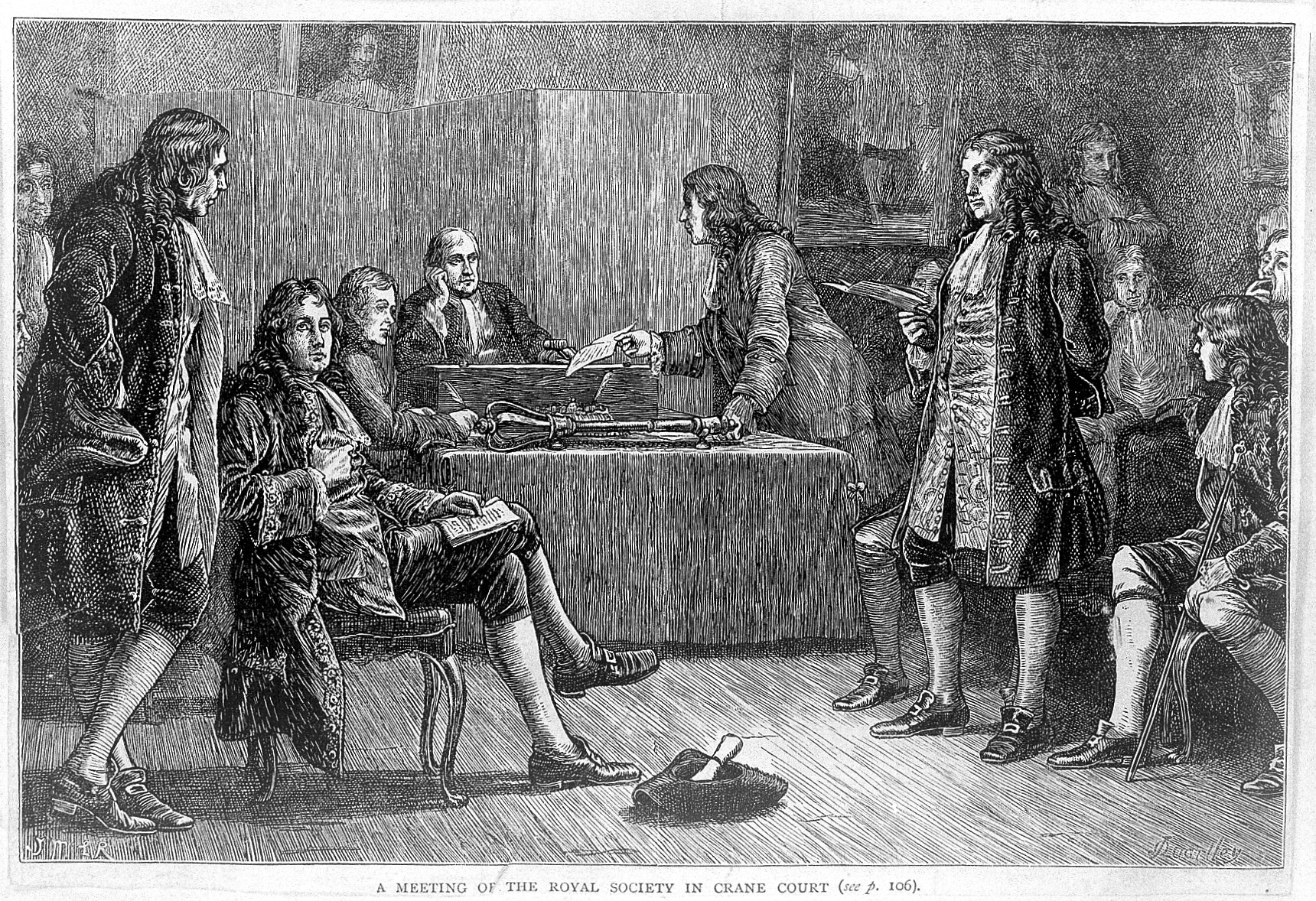 Royal Society, Crane Court, off Fleet Street, London: a meeting in progress, with Isaac Newton in the chair. Wood engraving by J. Quartley after [J.M.L.R.], 1883. General Collections Keywords: Royal Society; Isaac Newton; Charles II; Royal Society of London; John Arthur Quartley